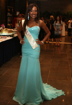 Miss Bahamas 2007, Anya Watkins in Miss World 2007, Sanya, China